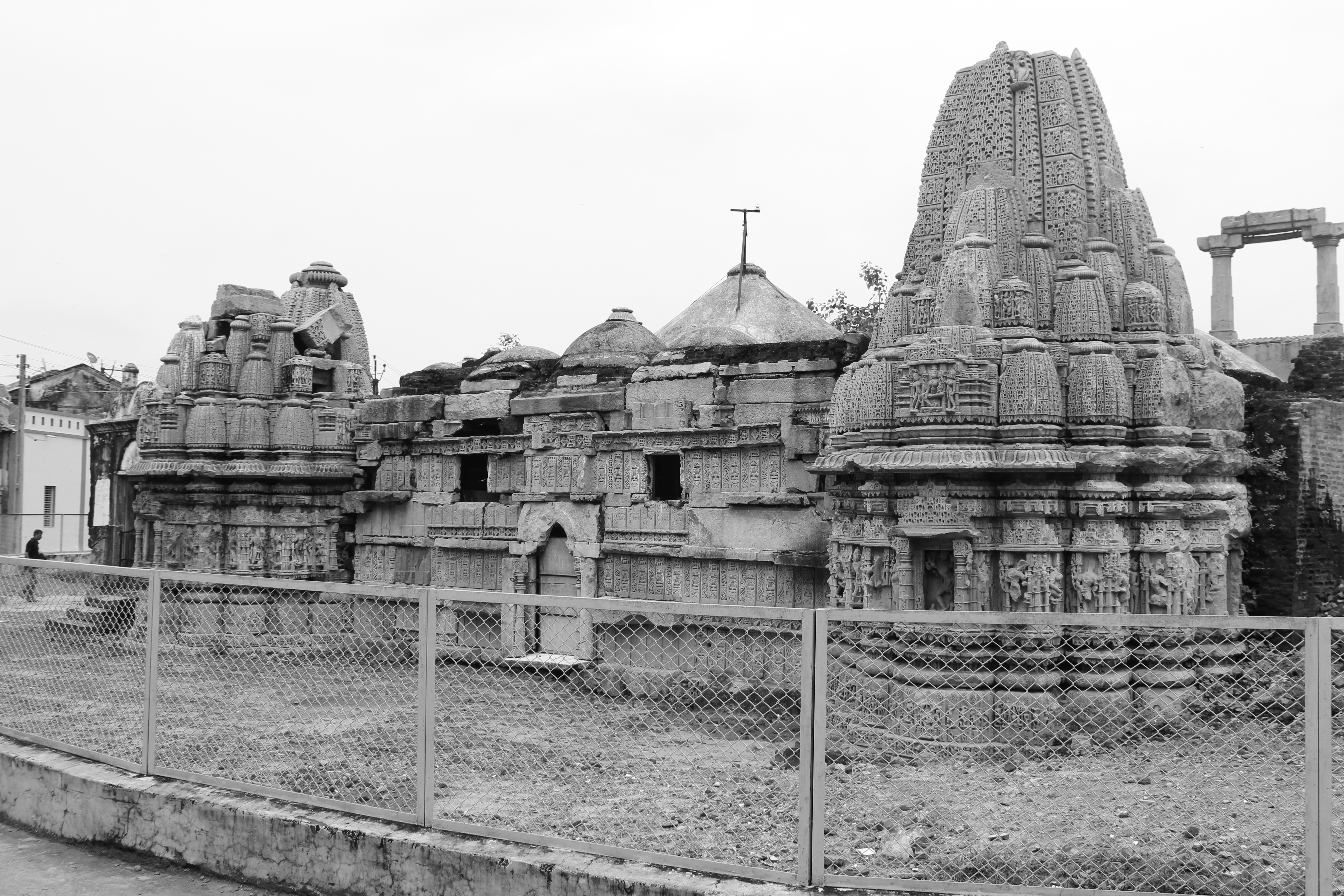 Siddhapur, Gujarat by Vijay Barot ગુજરાતી: રૂદ્રમહલ,સિદ્ધપુર by Vijay Barot